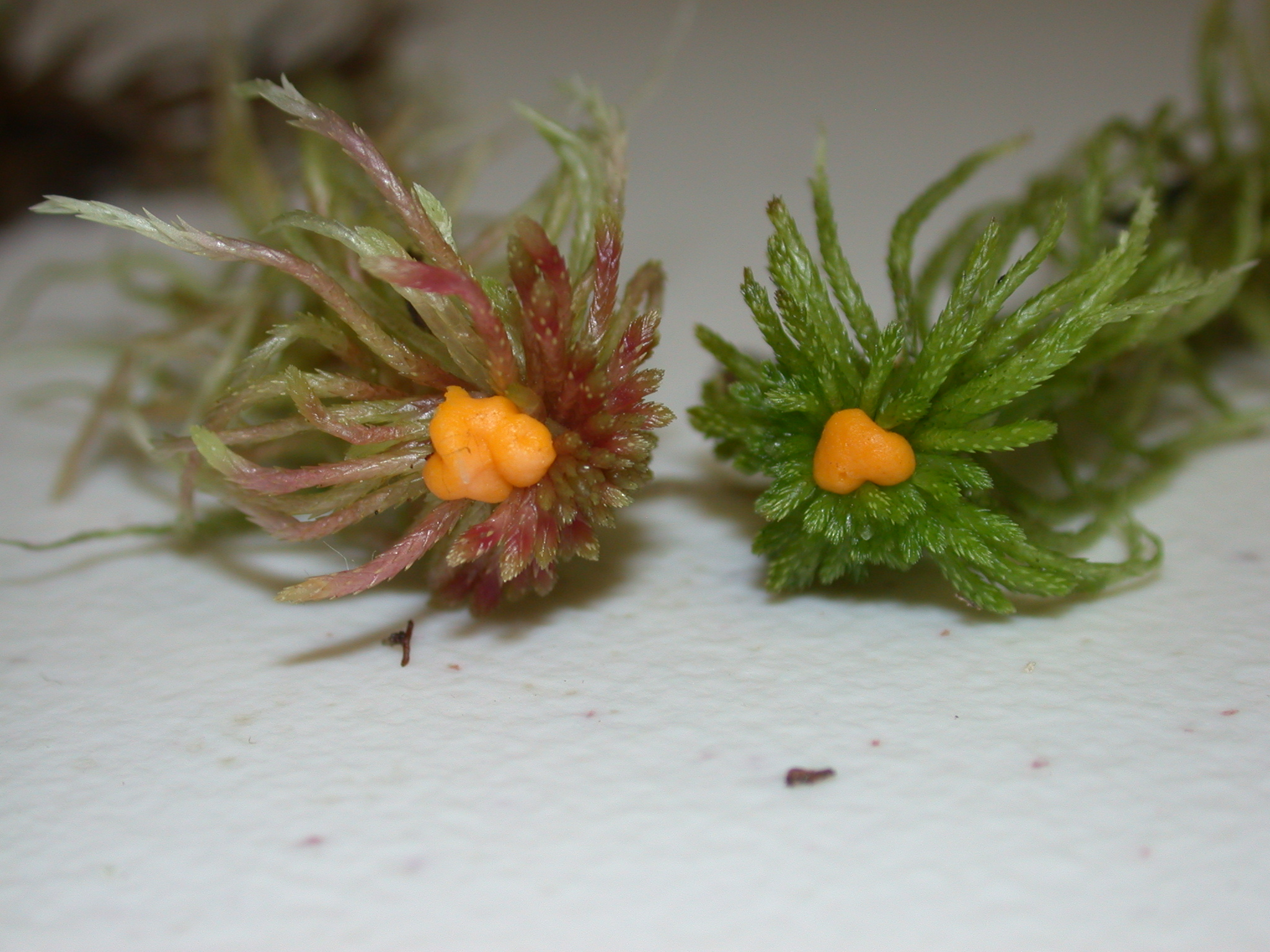 The fungus Endogone pisiformus. Specimen collected in Howe Demonstration Forest, Gander Lake, Newfoundland, Canada. Notes:"Found on Sphagnum in a wet area."